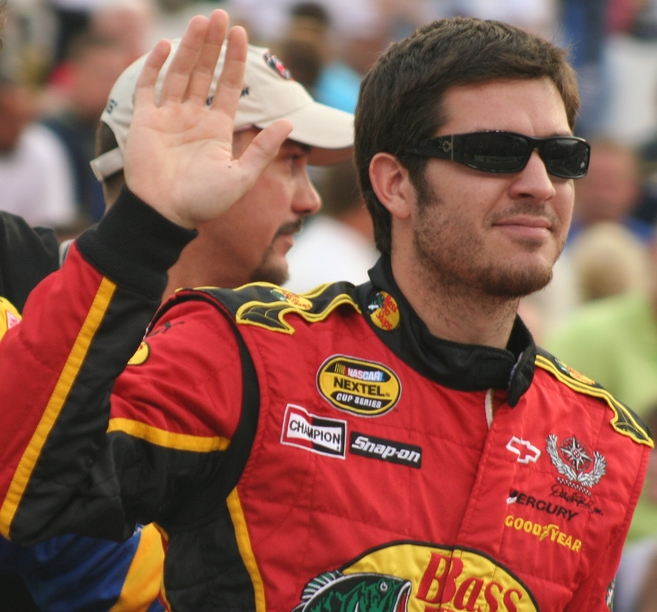 NASCAR driver Martin Truex, Jr. in August 2007 at Bristol Motor Speedway